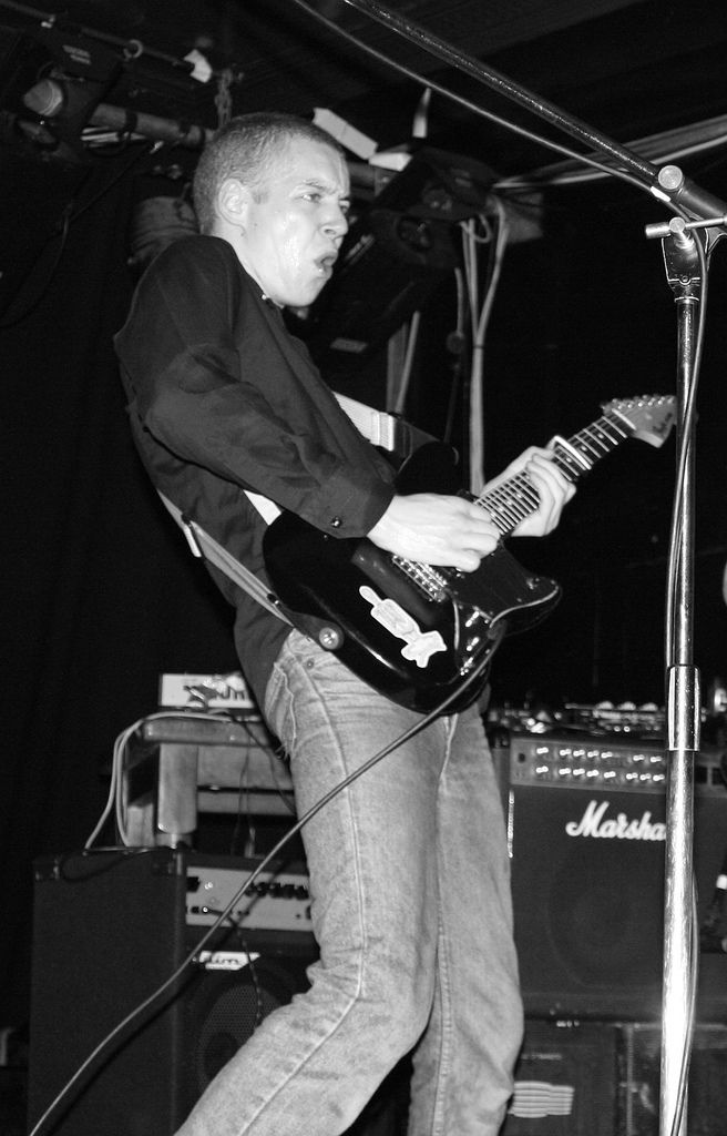 Adebisi Shank's guitarist Larry Kaye performing live 10 August 2009